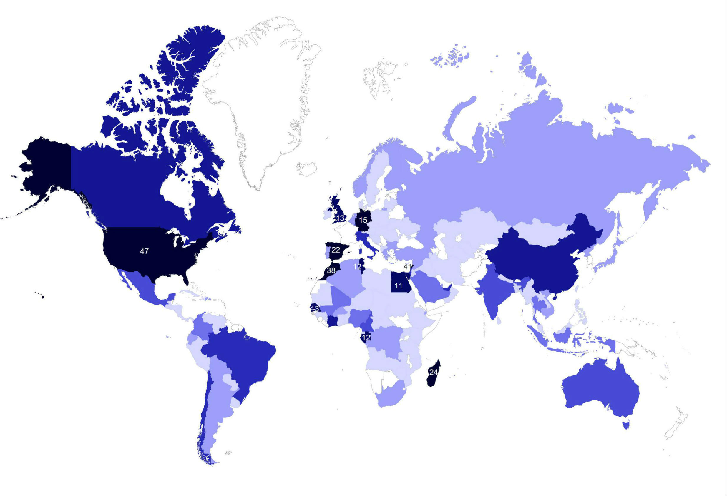 AEFE School Network by Country